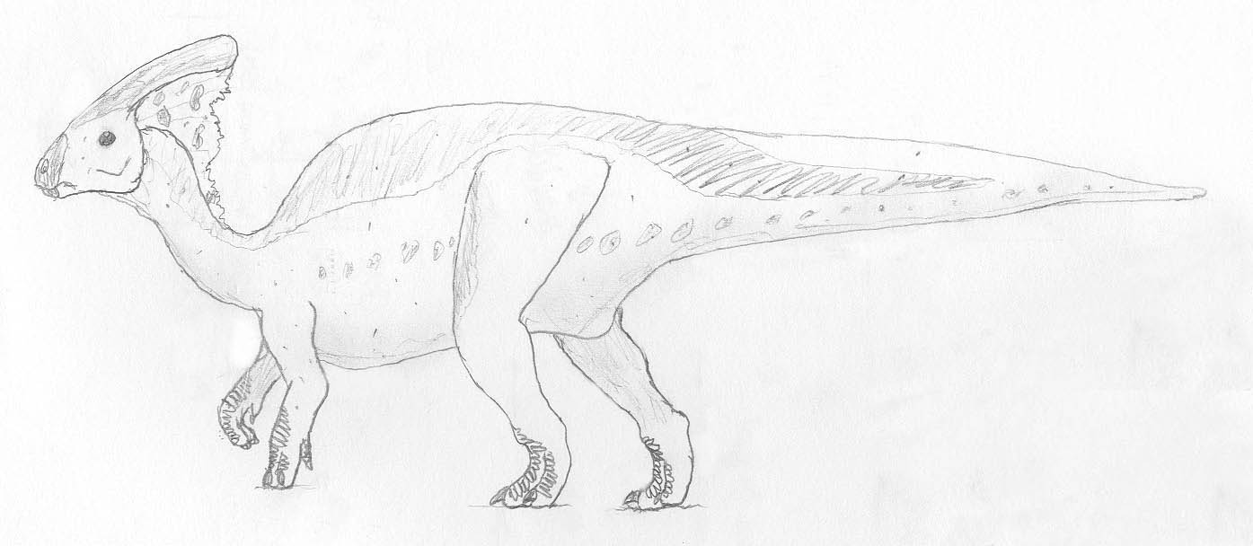 A picture of a Parasaurolophus, using a skeletal drawing by Luis V. Rey as a reference. This is an edited version (only things that showed through in the scan or lines that were sticking out weird)